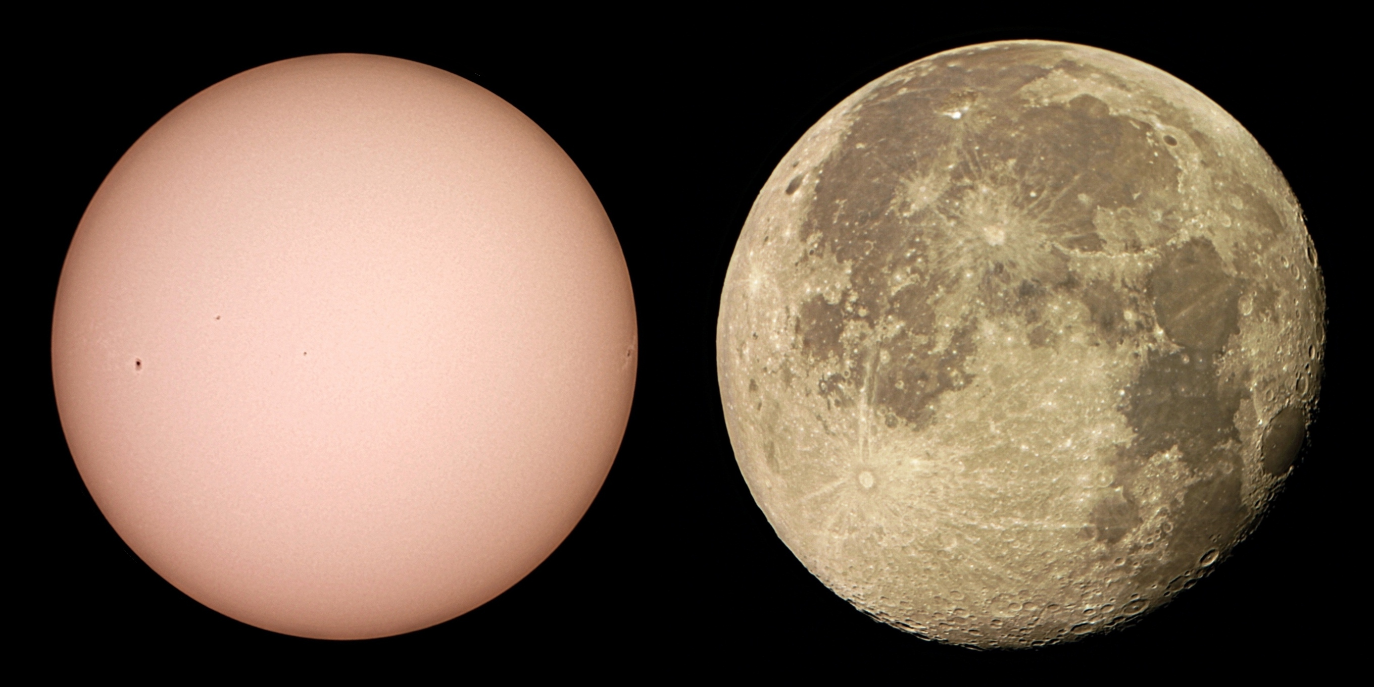 The Sun and the Moon photographed on the same day (August 1st 2015) with the same instrument (D=250mm/F=1200mm telescope) show a similar apparent diameter. This allows for total or annular eclipses of the Sun, depending on the position of the Moon on its elliptical orbit.